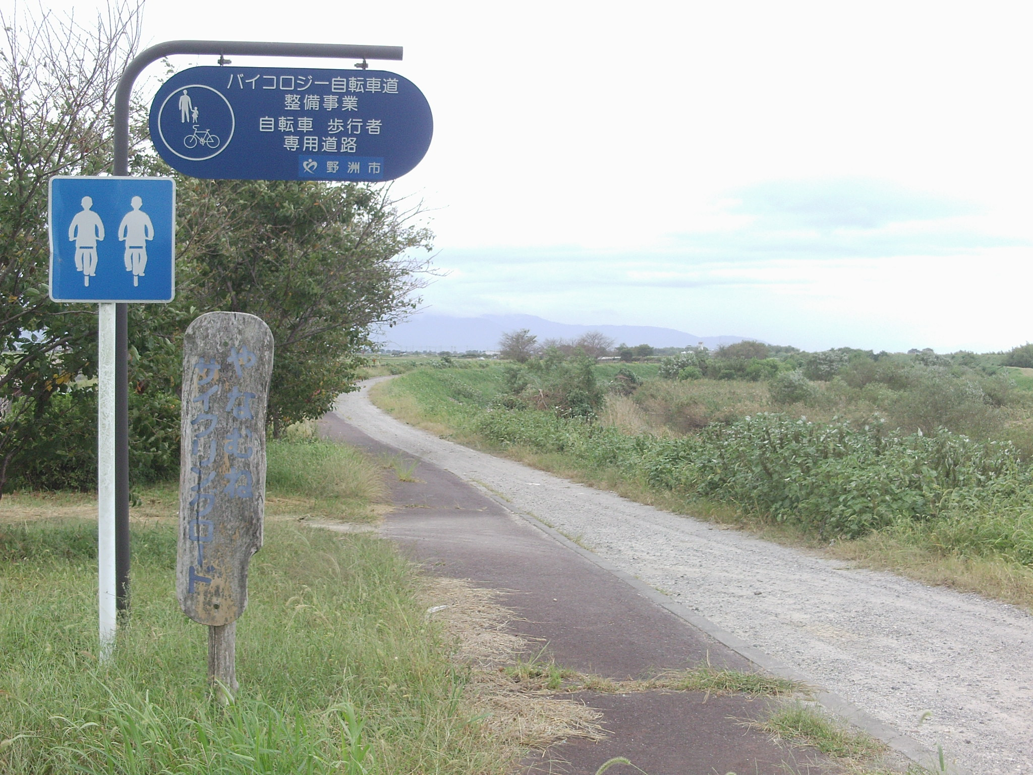 Yanamune cycle track in Hiruta, Yasu, Shiga.